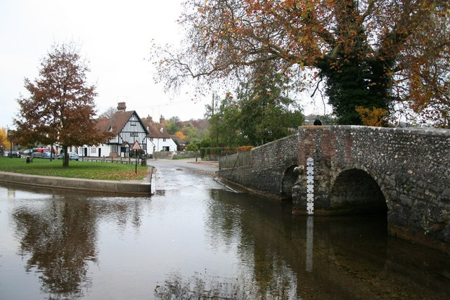 Aegen's Ford across the River Darrent, Eynsford, Kent